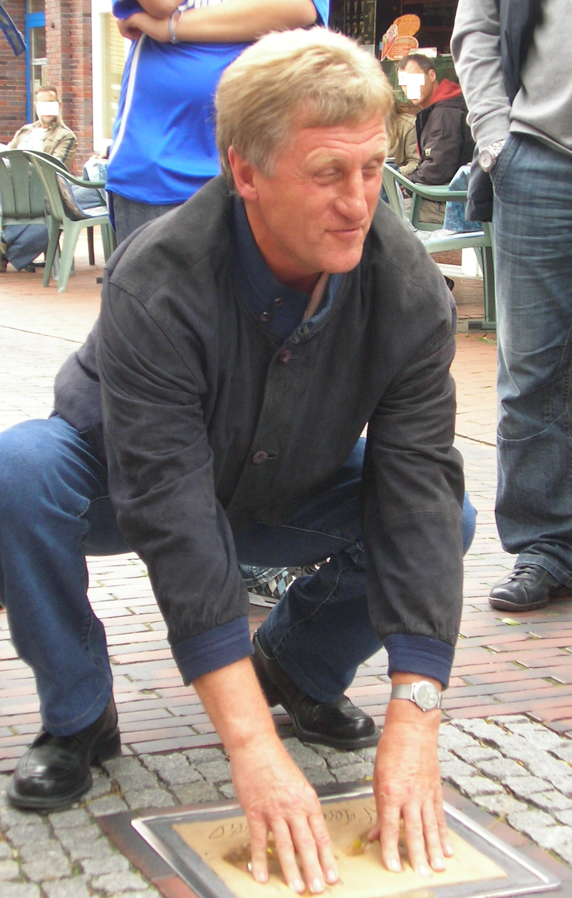 Hands of Fame - Klaus Fichtel